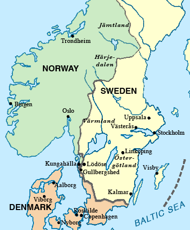 Sweden, Denmark and Norway in circa 1250. Data from: Sundberg, Ulf (1997) (in Swedish). Svenska Freder och Stillestånd 1249-1814. Arete. ISBN 91-89080-01-7. p. 20.